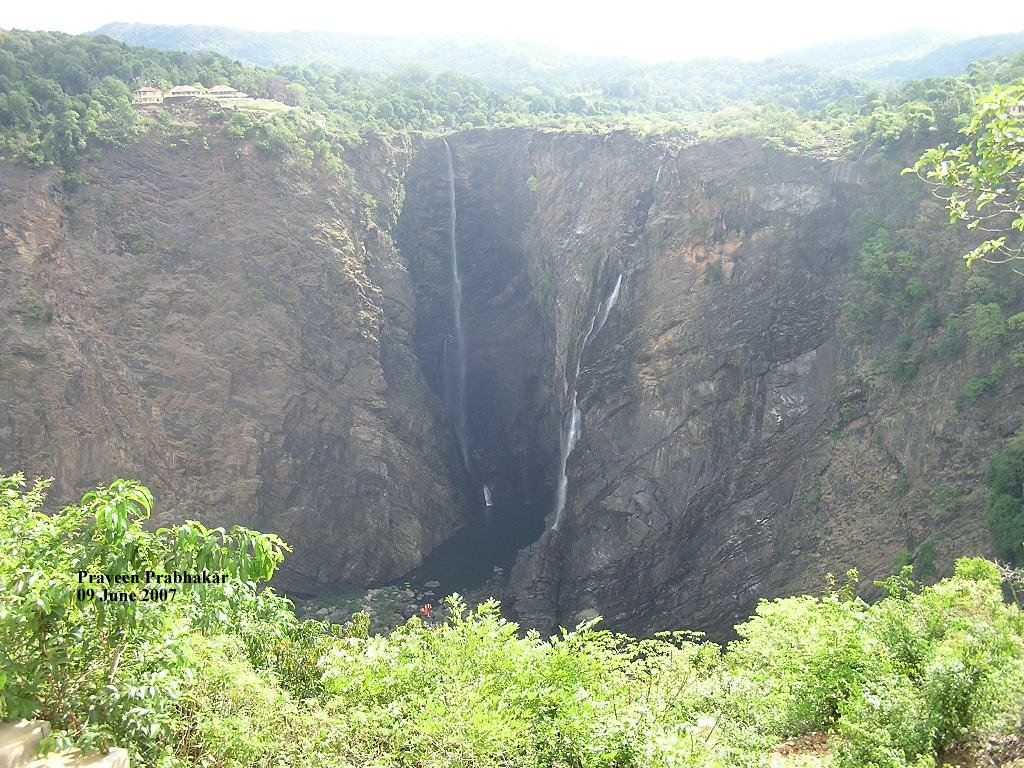 Taken on 09 June 2007 Author: Praveen Prabhakar Jog Falls